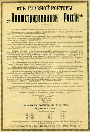 Cover of the magazine Illustrated Russia. Paris. 1928